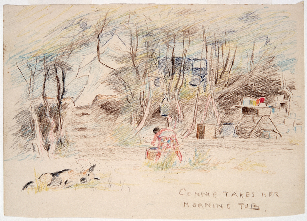 Connie takes her morning tub (Te Papa MA I023311) by Trevor Lloyd